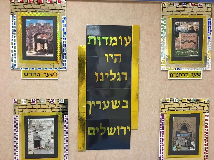 Children's art work in Tel Aviv.